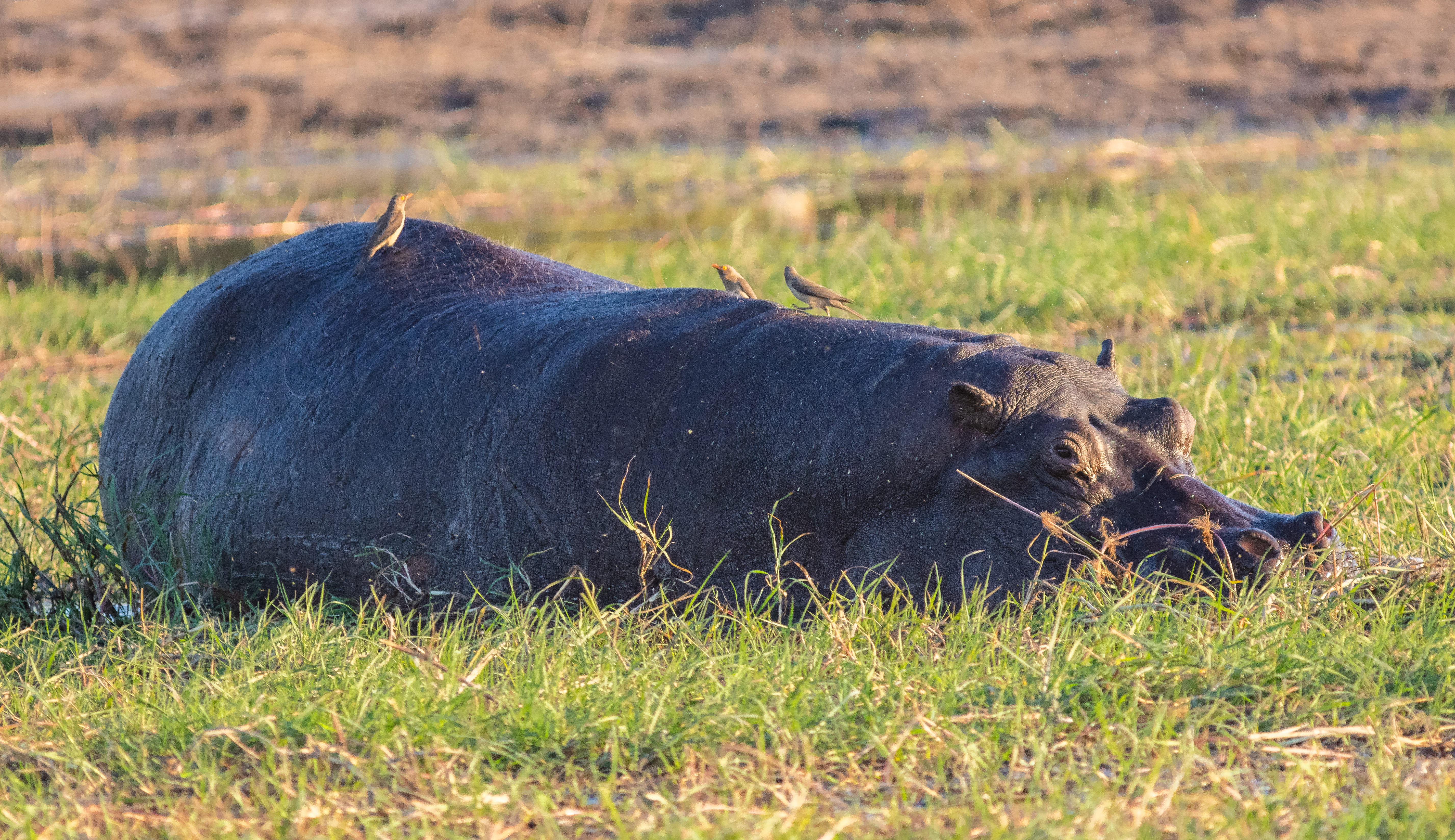 Hippo (Hippopotamus amphibius), Chobe National Park, Botswana